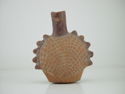 Moche clay Spondylus. 200 A.D. Larco Museum Collection. Lima, Peru.